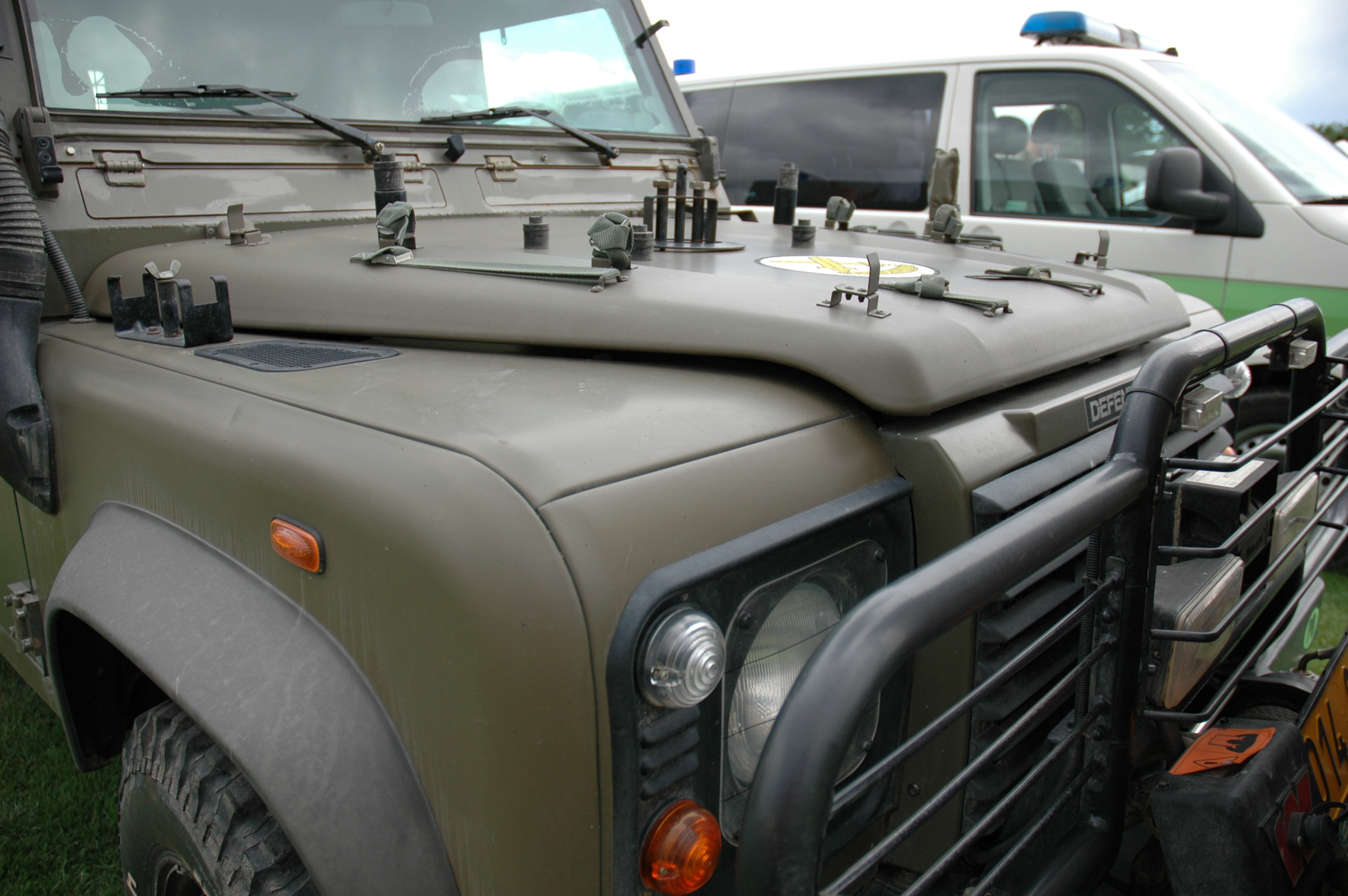 Land Rover Defender of Czech military police